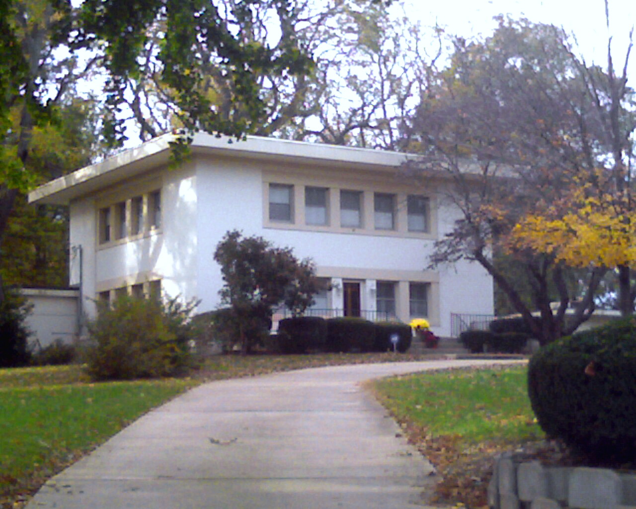 Gocke-Vance House, built from plans drawn by Frank Lloyd Wright, Overland, MO